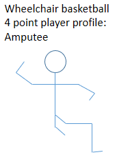 Created using information from . ISOD amputee class: A2 IWBF class: 4 point player